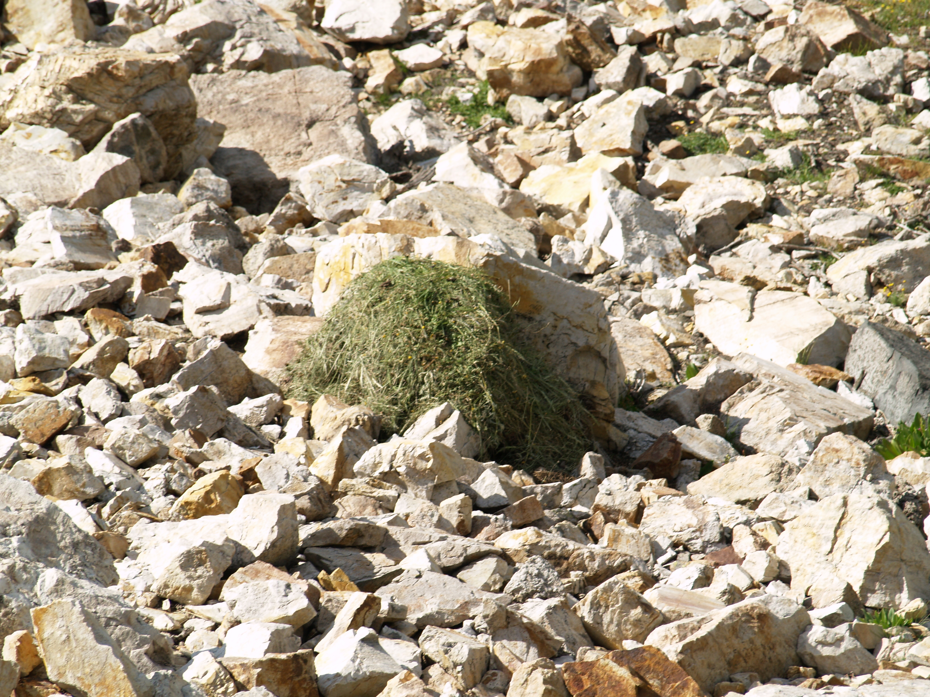 Pile of vegetation, amassed by Pikas, Utah.